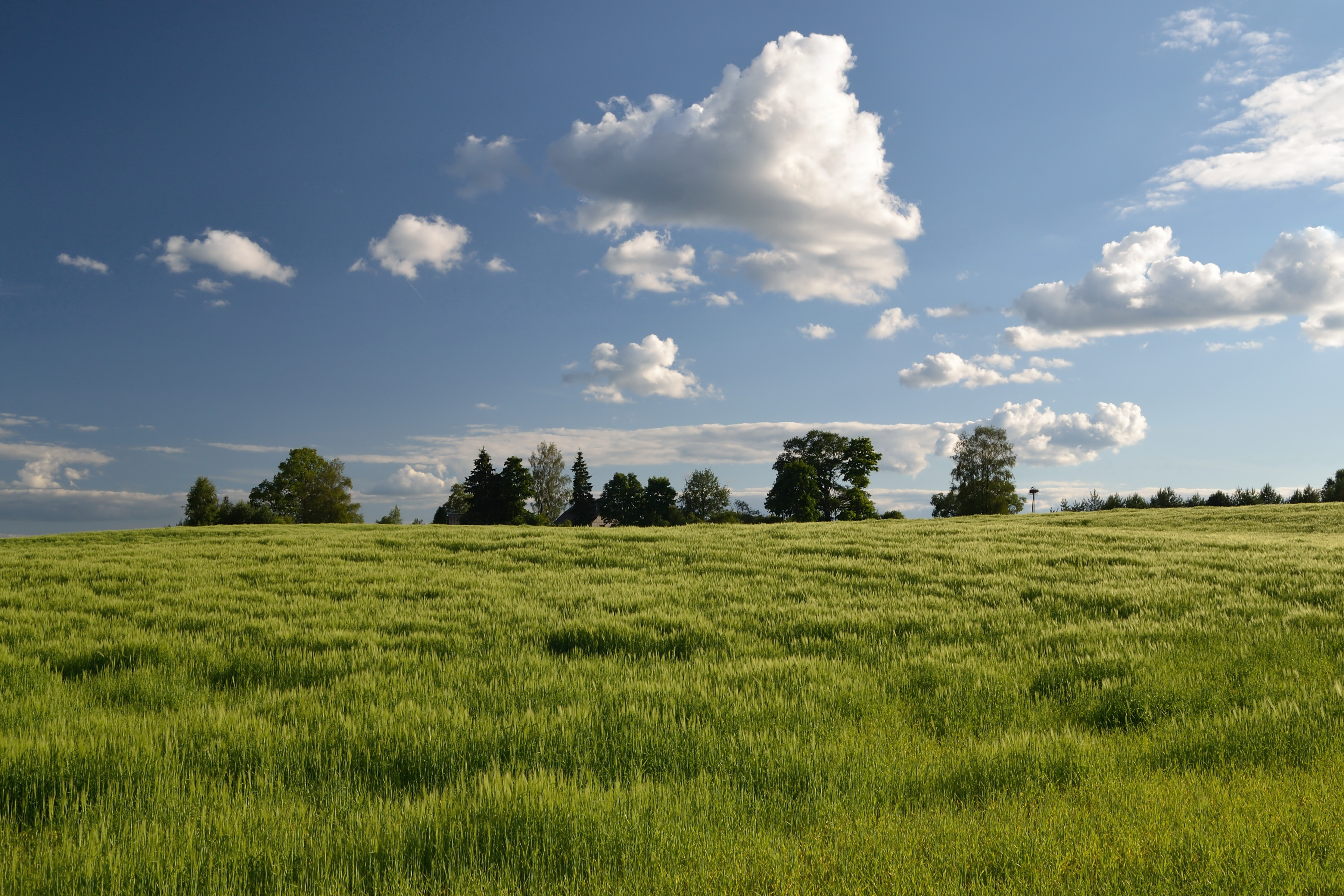 Barleyfield (Hordeum vulgare) in Sooru village